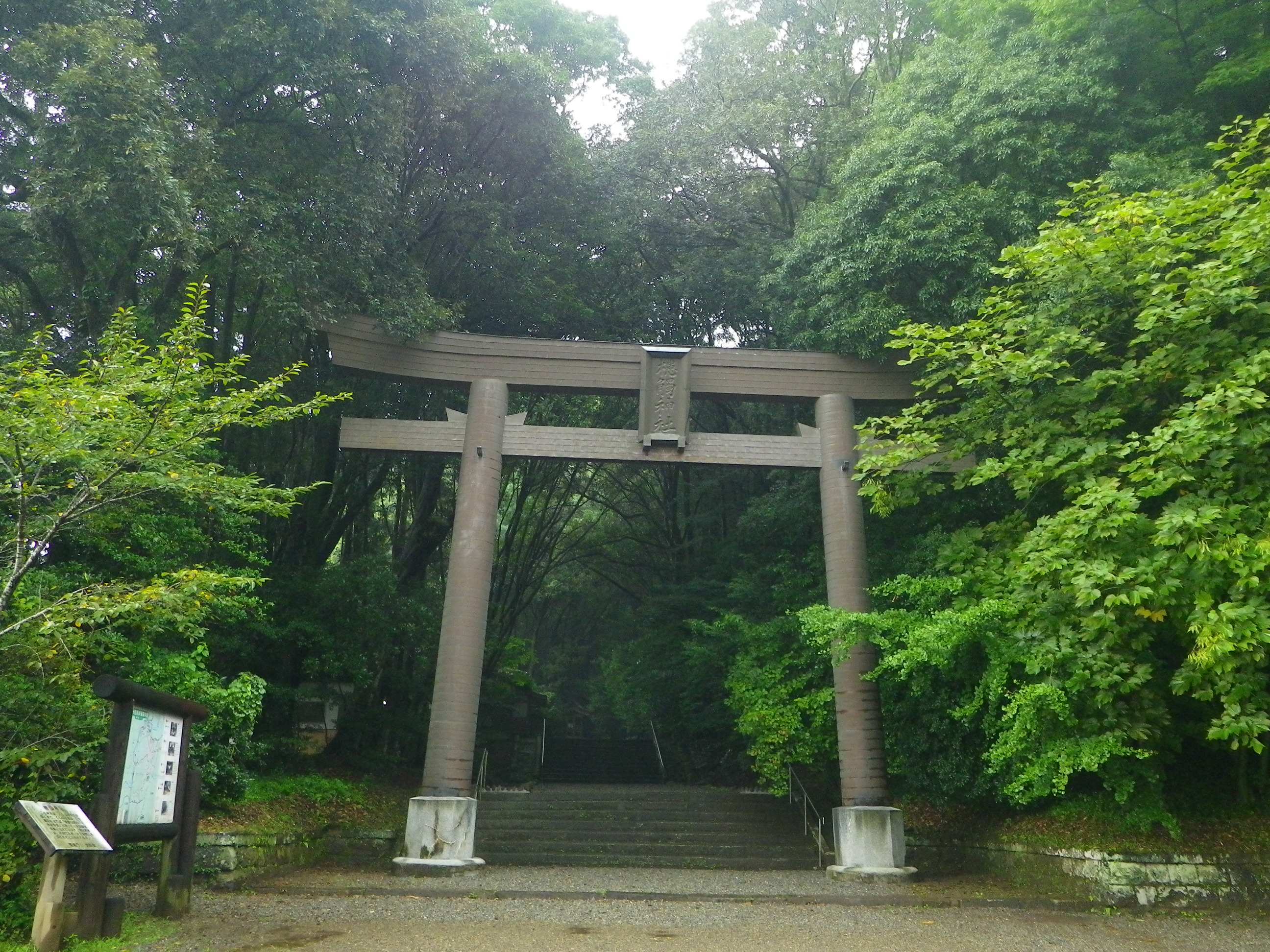 Kushifuru-jinjya